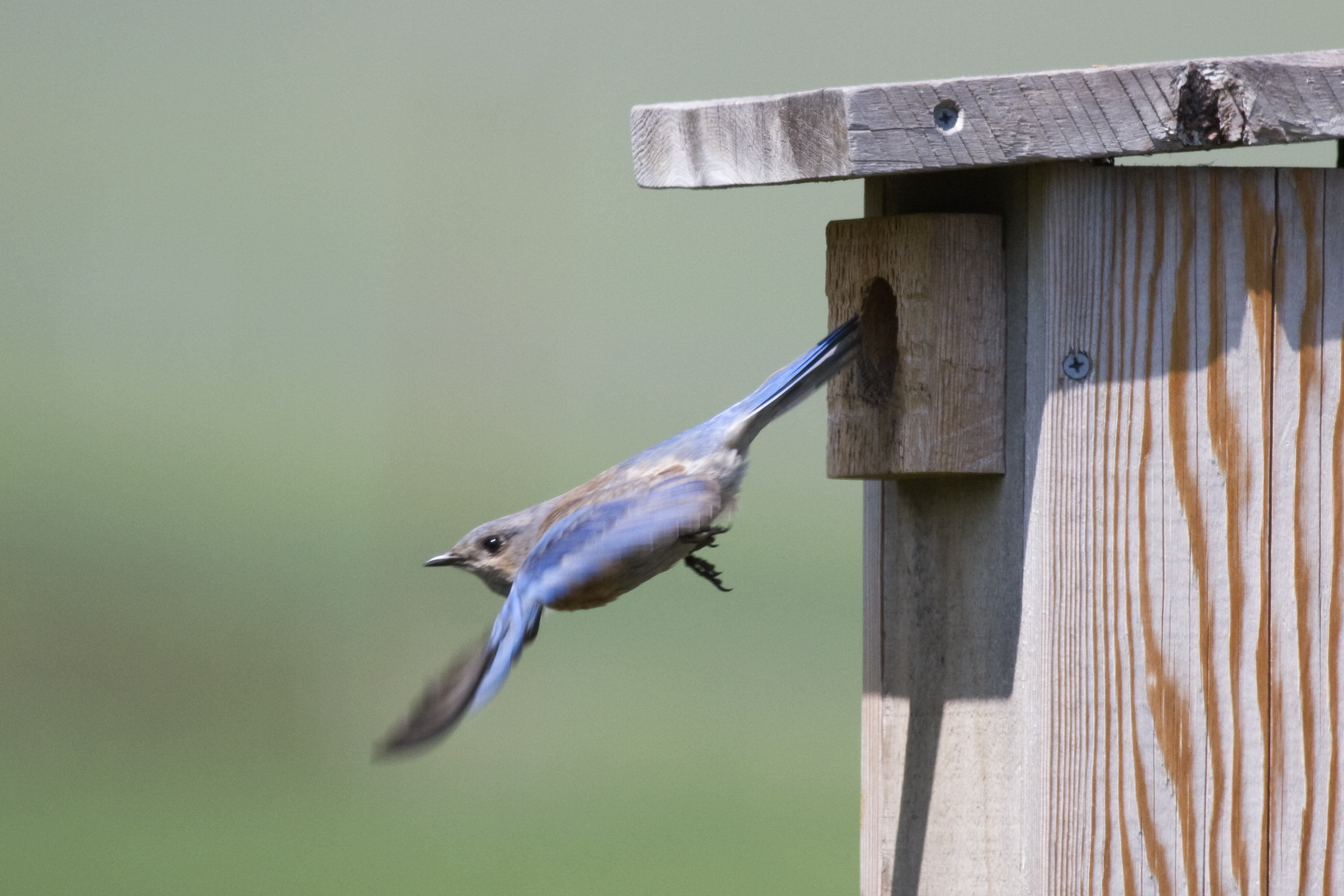 A pair of Western Bluebirds (Sialia mexicana) taking care of their nest.